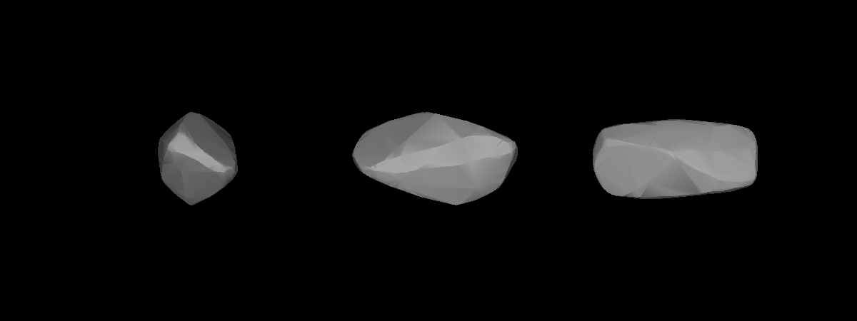 A three-dimensional model of 1291 Phryne that was computed using light curve inversion techniques.